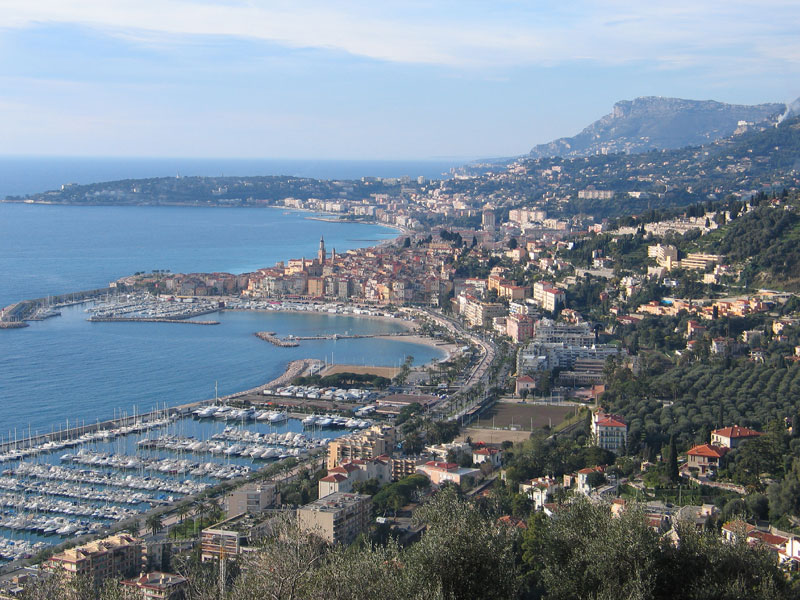 View at Menton from the highway Source Photo Shiva-Nataraja Statut Gérald Anfossi